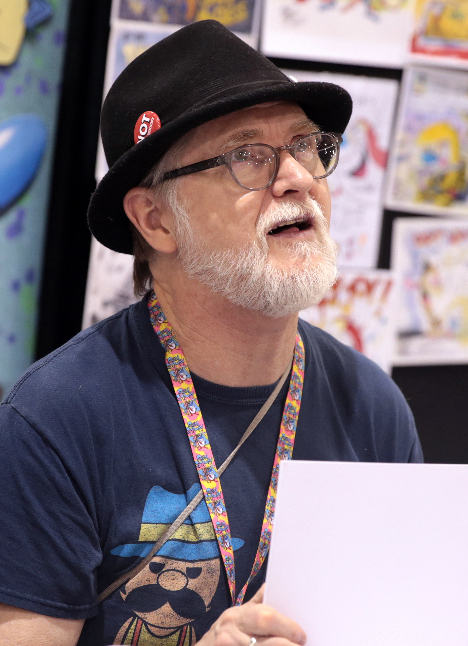 Bob Camp speaking at the 2018 Phoenix Comic Fest in Phoenix, Arizona.